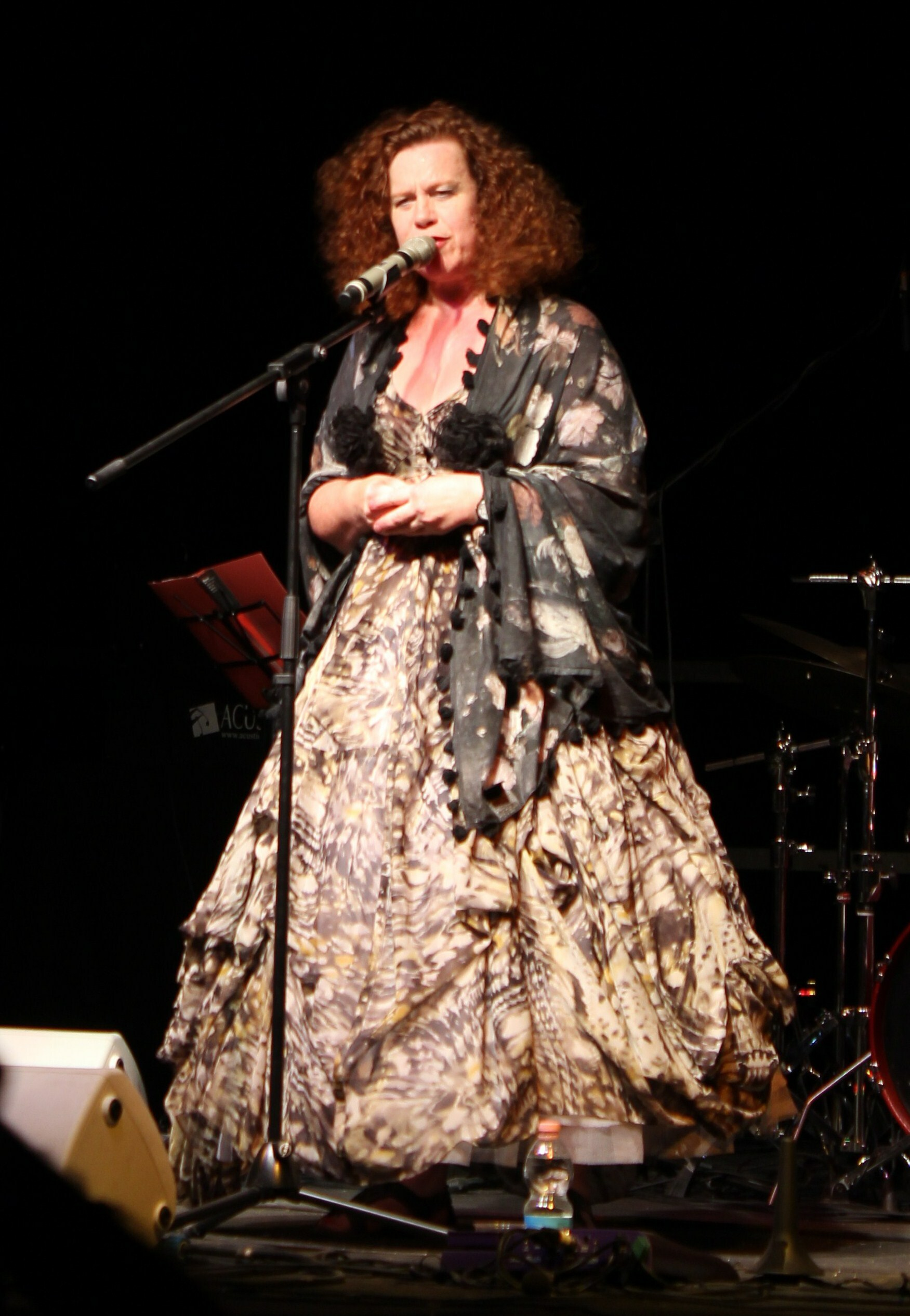 Sarah Jane Morris at Pozzuoli Jazz Festival 2011